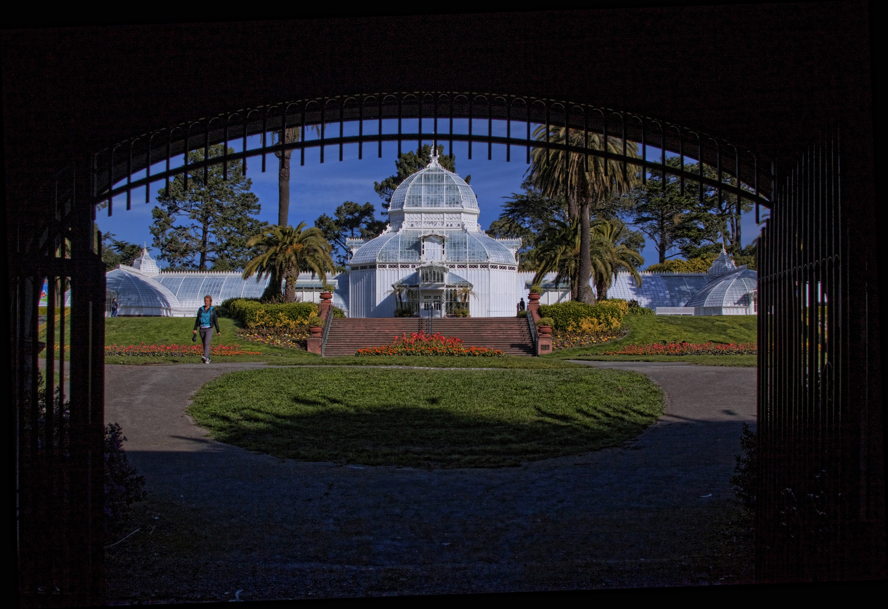 Golden Gate Park Conservatory